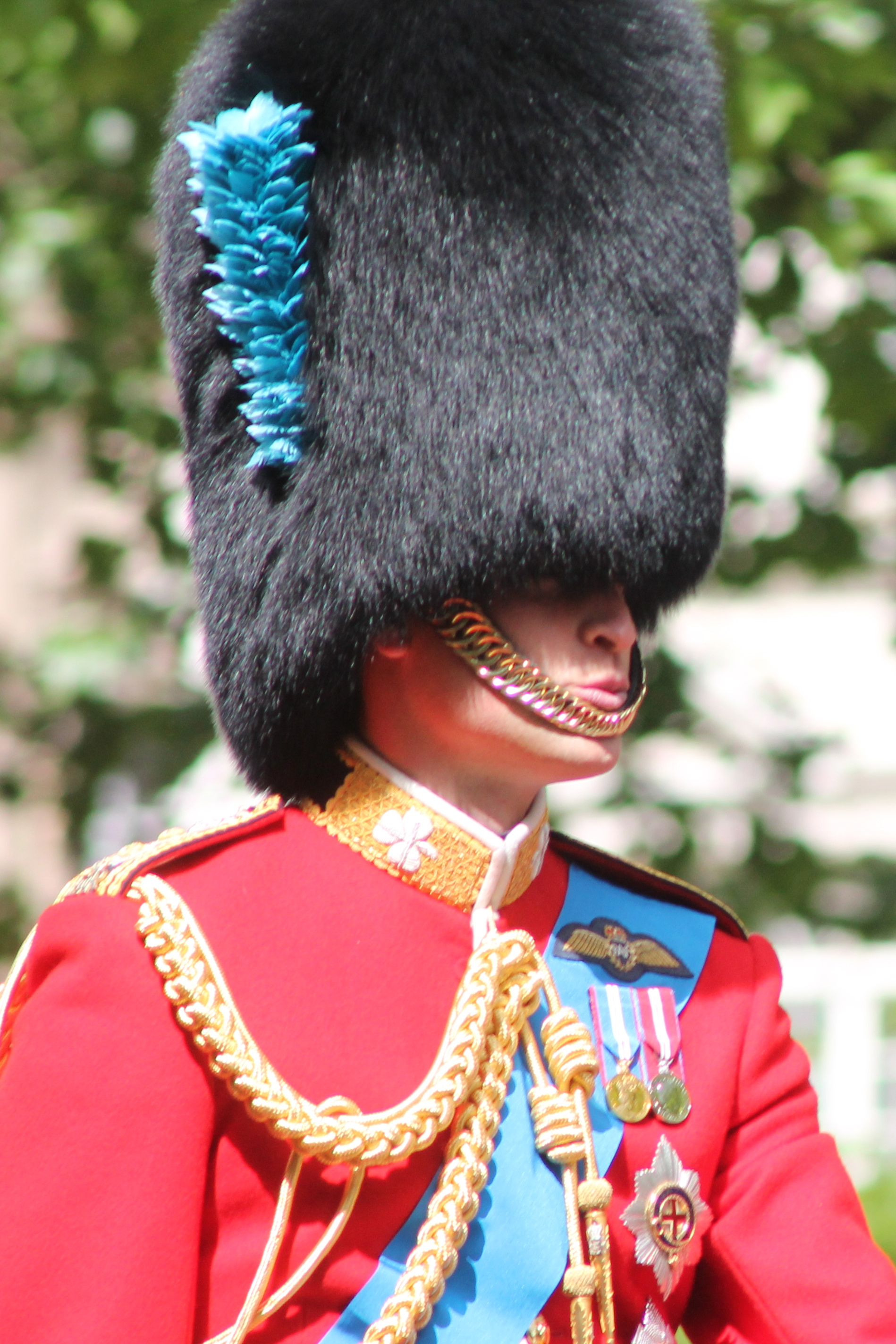 The Duke of Cambridge as Colonel of the Irish Guards, Trooping the Colour, June 2013